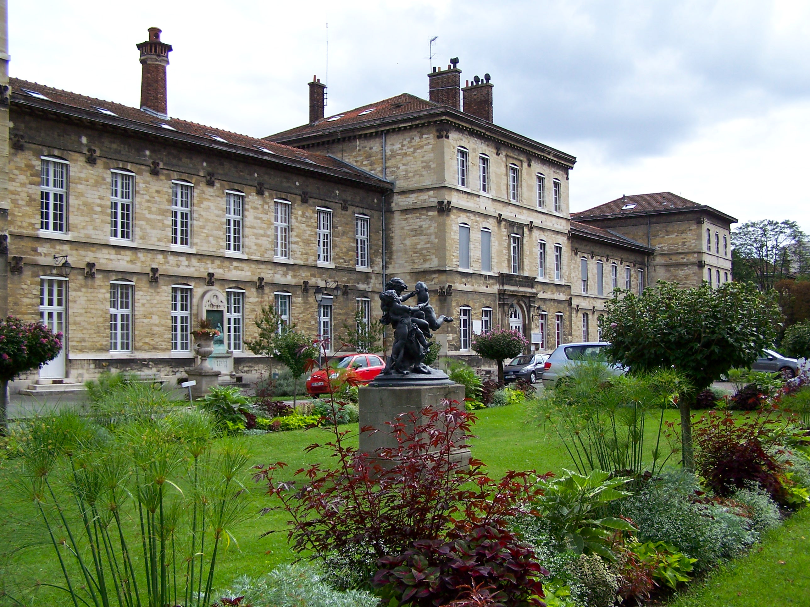 Le pavillon Magnan de l'hôpital Sainte-Anne, Paris